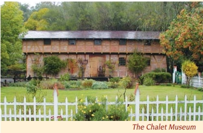 Chalet Museum - Vallejo's Home - Sonoma State Historic Park